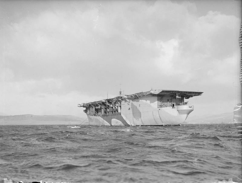 HMS Archer the Latest Auxiliary Carrier Which Was Built in America. 18 February 1943, Greenock. Stern view of the escort carrier HMS ARCHER.